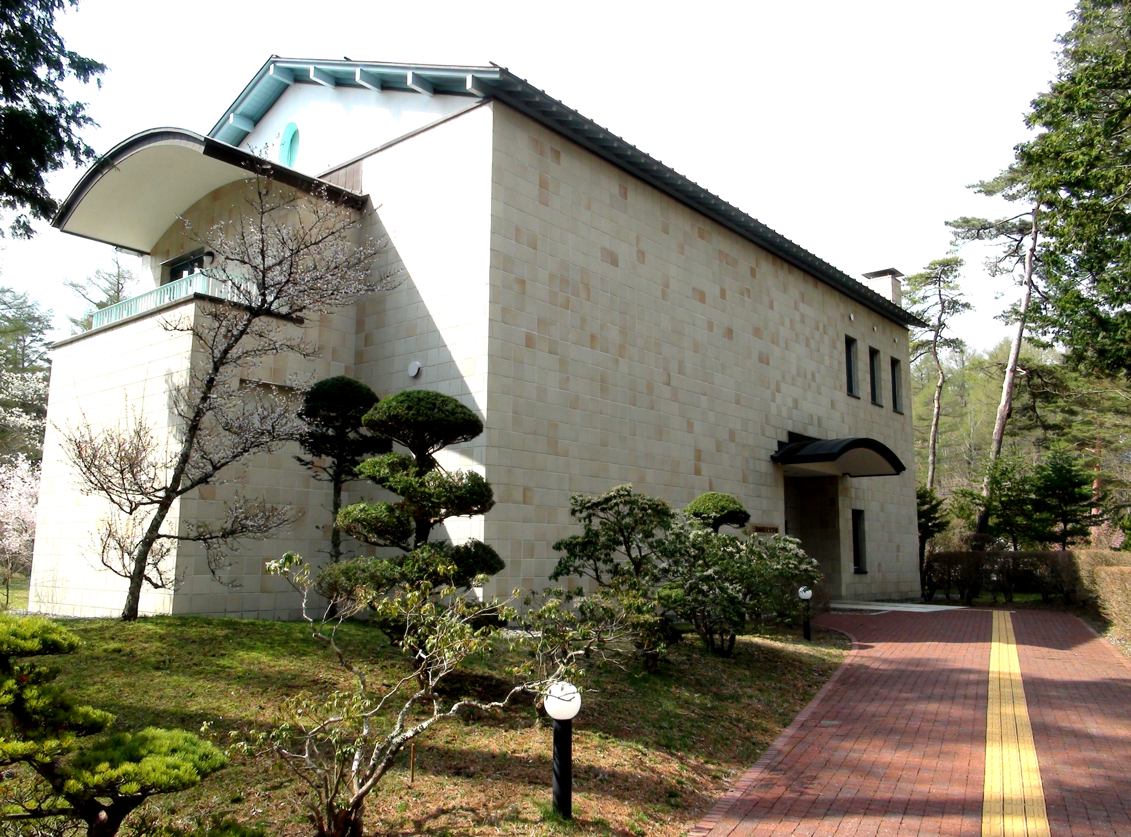 Mishima Yukio Literature Museum